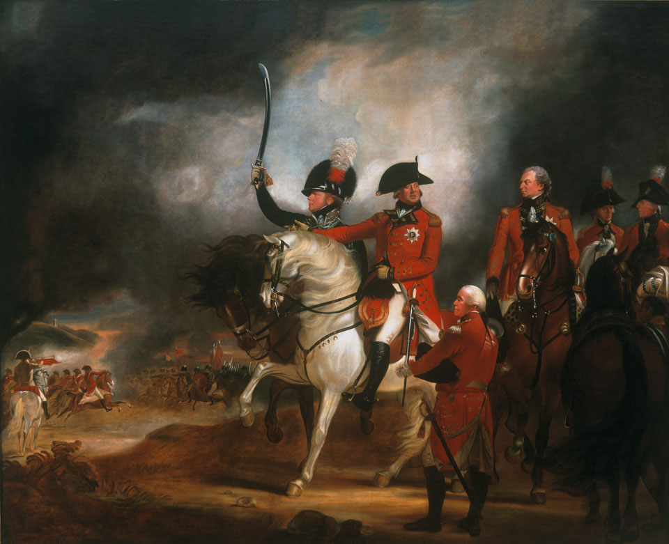 A smaller copy of the large painting destroyed in the 1992 Windsor Castle fire.